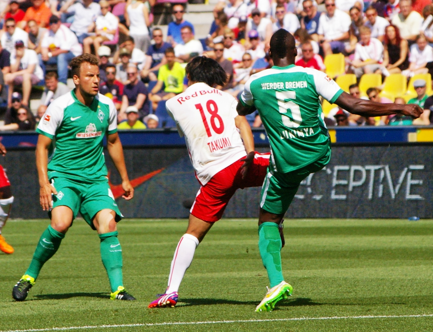 tournament with SV Werder Bremen, FC Southampton, Red Bull Salzburg and Valencia CF preseason friendly matches